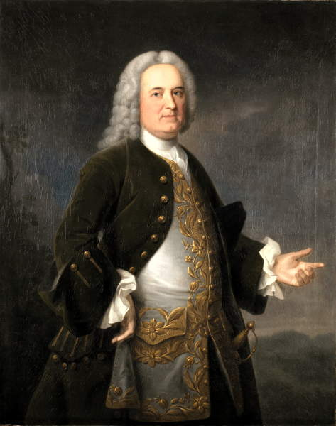 Sir George Downing, 3rd Baronet